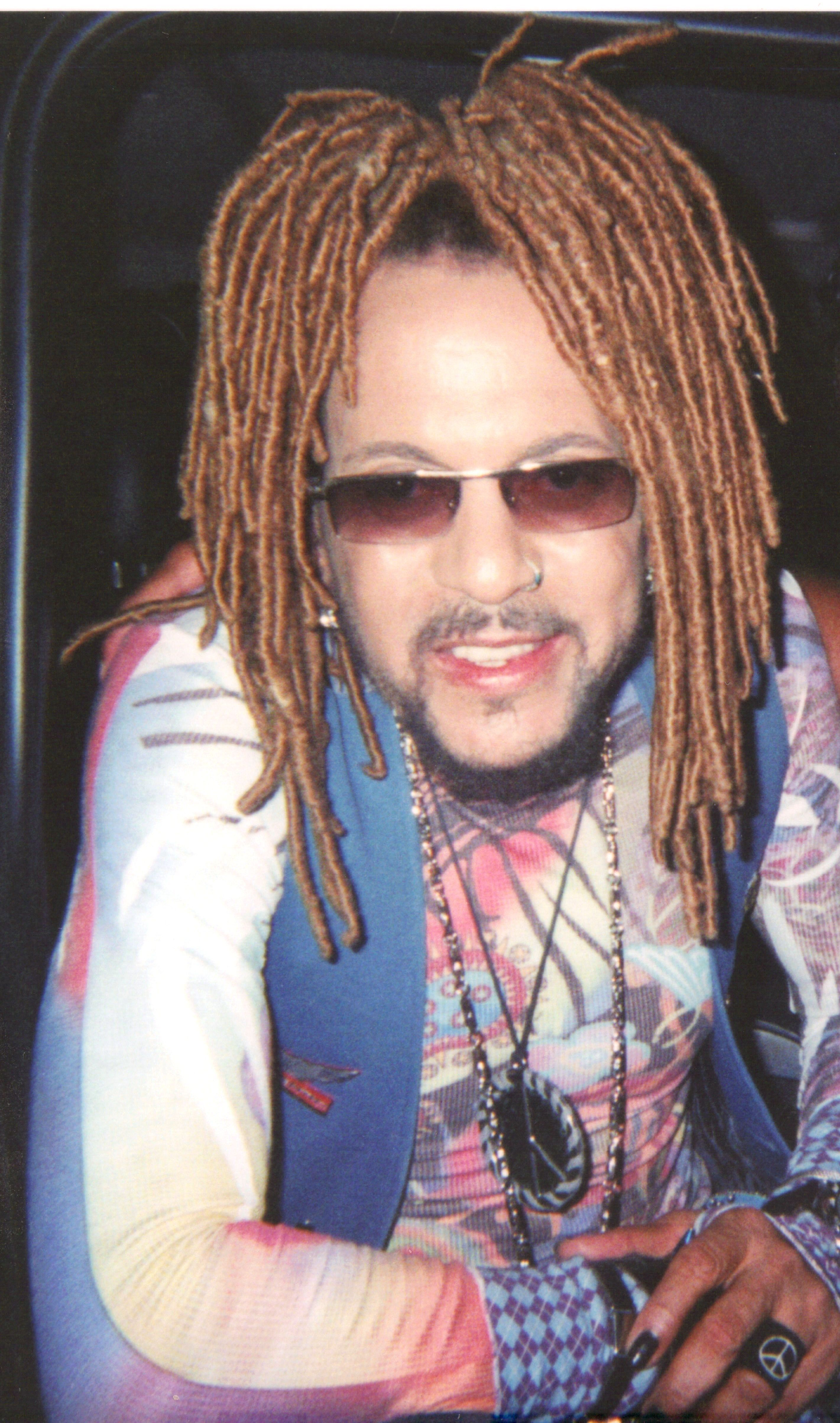 Toño Rosario takes a photo with a fan (I) at Kasakada Park in the Dominican Republic. Fan has been cropped out of the photo.